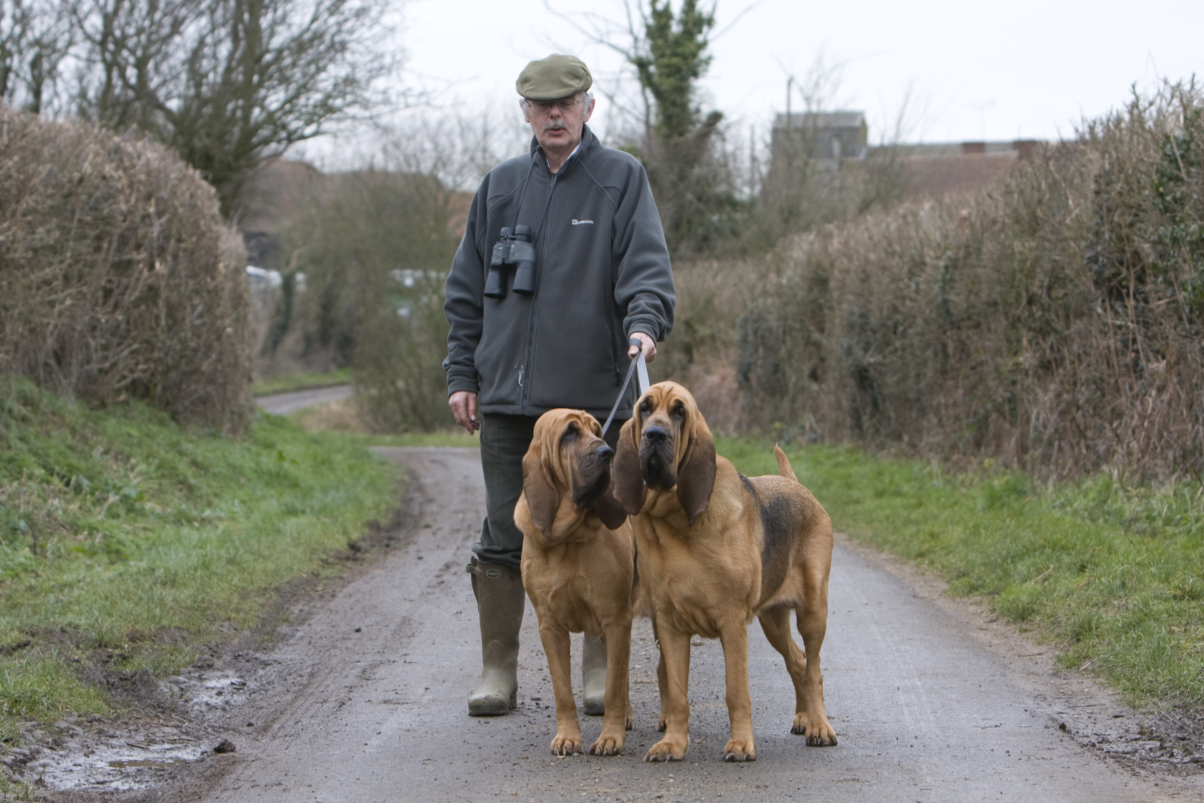 The Bloodhound Club Trials, Senior Stake, Alton, 28 February 2008